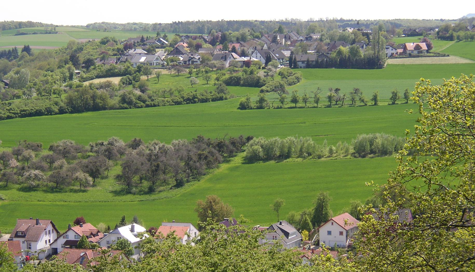 Sinzig-Koisdorf in Rhineland-Palatinate, Germany